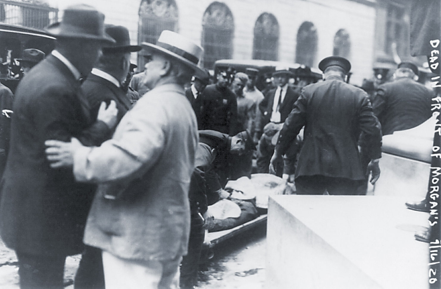 Aftermath of the Sept. 16, 1920 Wall Street bombing Library of Congress Native nameLibrary of CongressLocationWashington, D.C. , United States of AmericaCoordinates38° 53′ 18″ N, 77° 00′ 16″ W Established24 April 1800 Web Authority control : Q131454 VIAF: 151962300 ISNI: 0000 0001 2186 288X ULAN: 500312782 LCCN: n78089035 NLA: 35304669 WorldCat institution QS:P195,Q131454